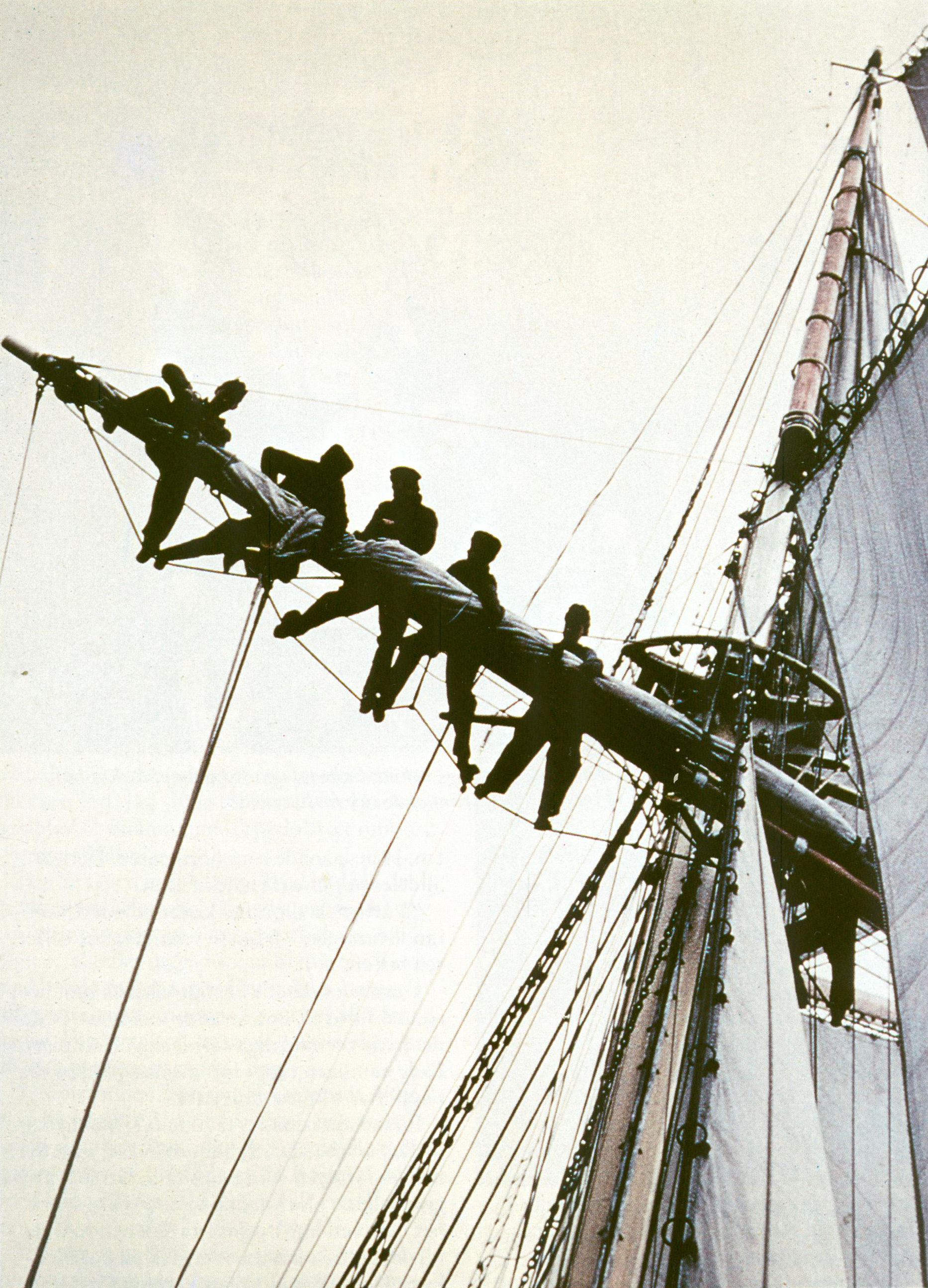 Sailors in the yard on the Swedish HMS Falken.